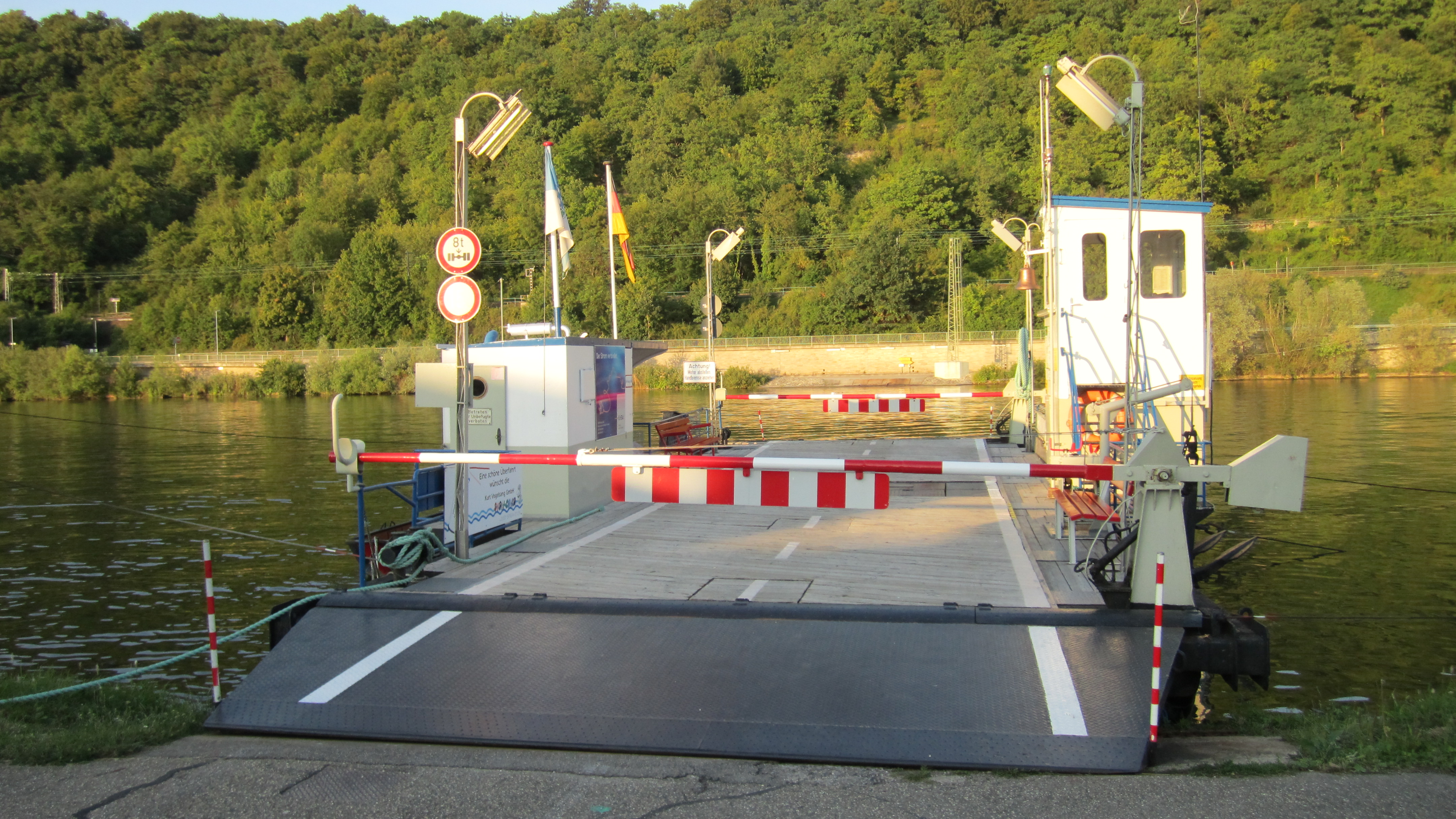 Ferry in Hassmersheim